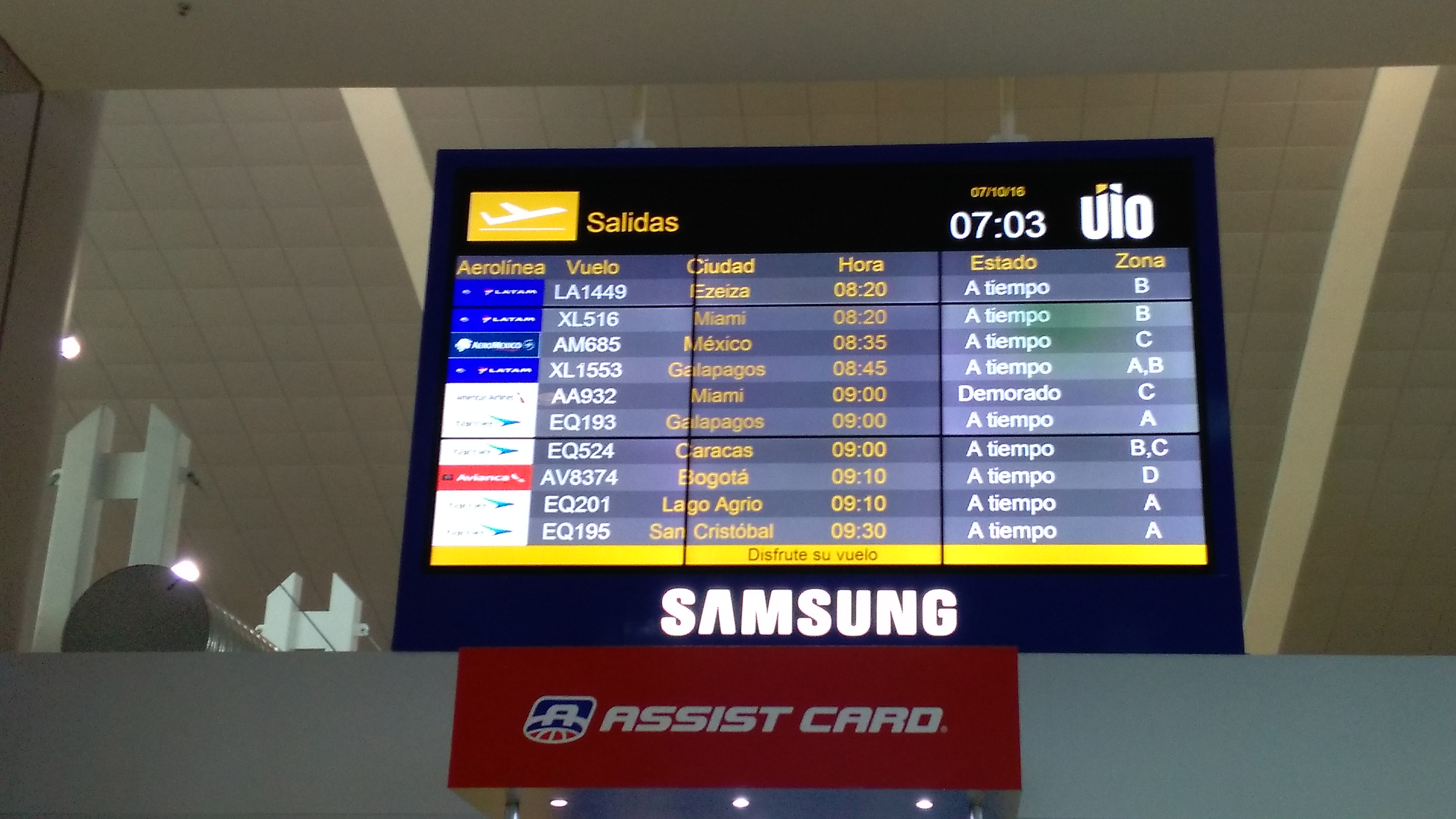 Departures screen